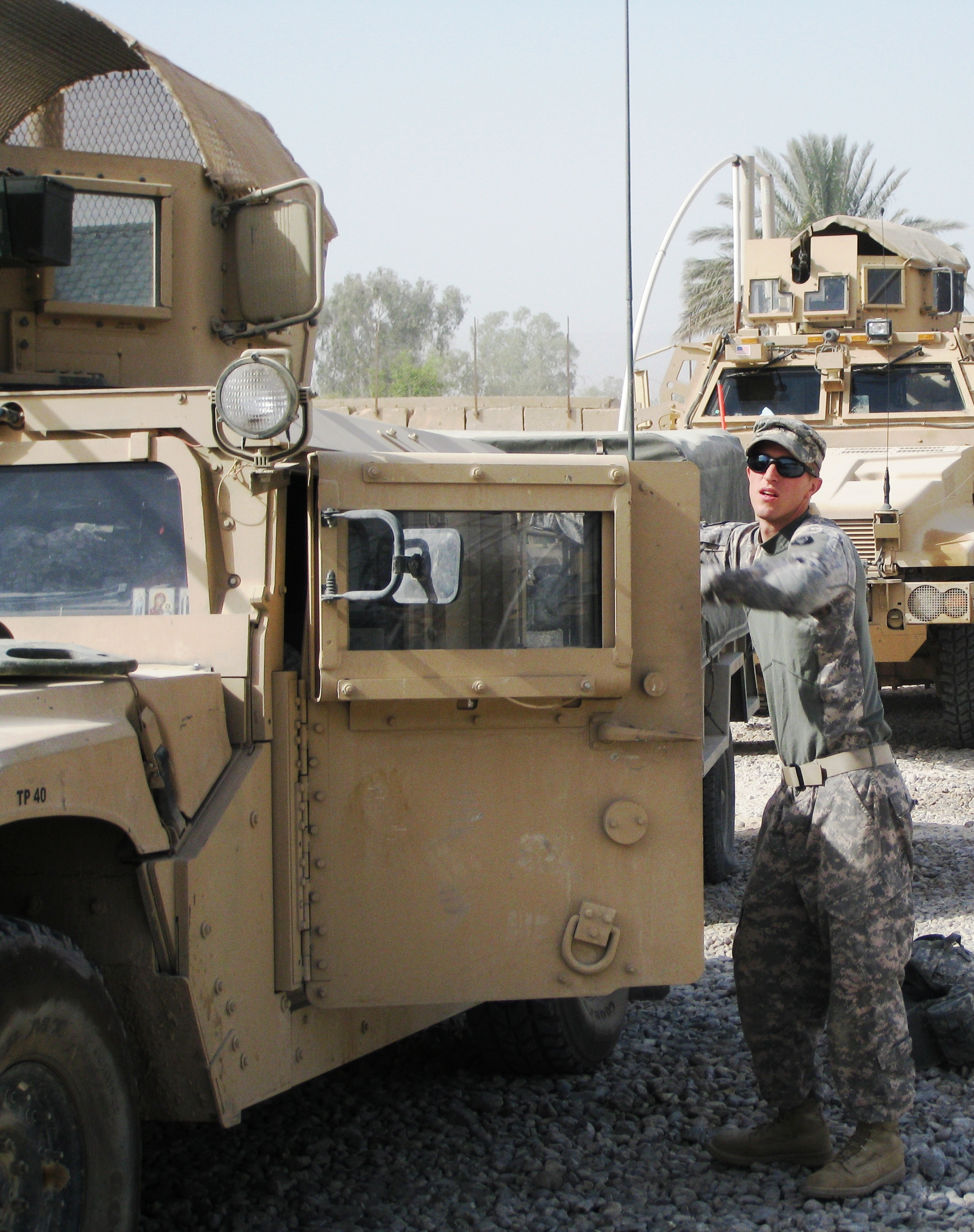 34th ID Band Soldier during pre-convoy preparation at FOB Husiniyah, Iraq.